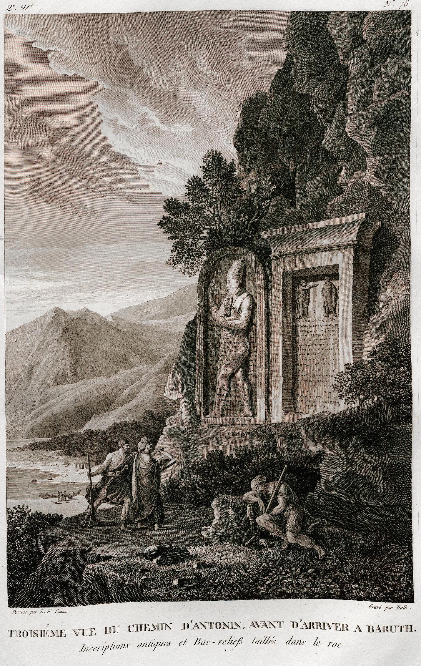 Louis-François Cassas From: Voyage pittoresque de la Syrie, de la Phoenicie, de la Palaestine et de la Basse Aegypte: ouvrage divisé en trois volumes contenant environ trois cent trente planches